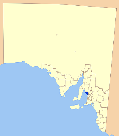 Map of South Australia showing the location of the Mallala Local Government Area. A modification of GDFL map by Astrokey44; found here: File:SA_LGA_blank.png